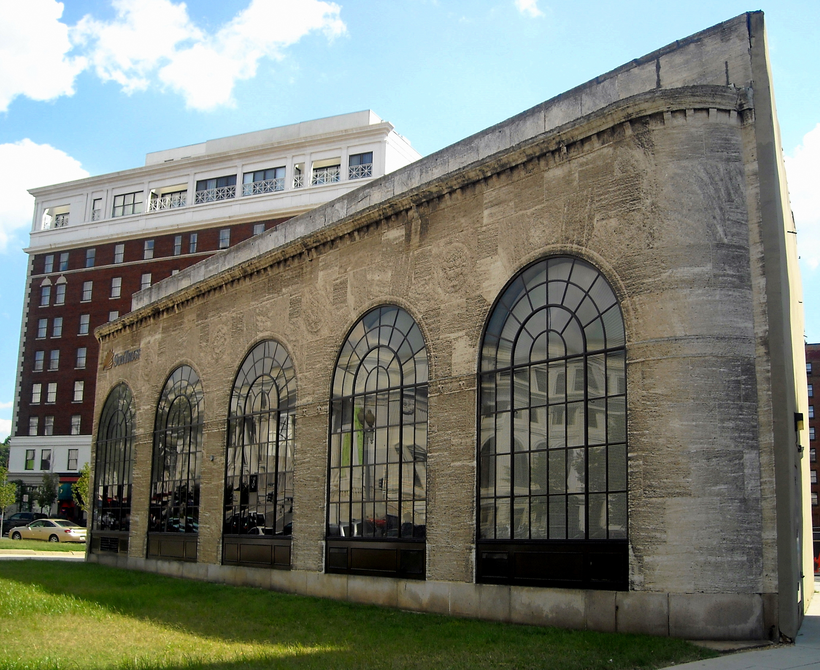 The Phoenix Park Hotel (located at 520 North Capitol Street, NW) and a SunTrust Bank branch located at 2 Massachusetts Avenue, NW) in Washington, D.C. The Phoenix Park, originally known as the Commodore, was built in 1922 and is a member of the Historic Hotels of America. The bank building was once used by the Catholic War Veterans of the United States. It was originally built in 1926 as a Childs Restaurant. It was designed by William Van Alen.